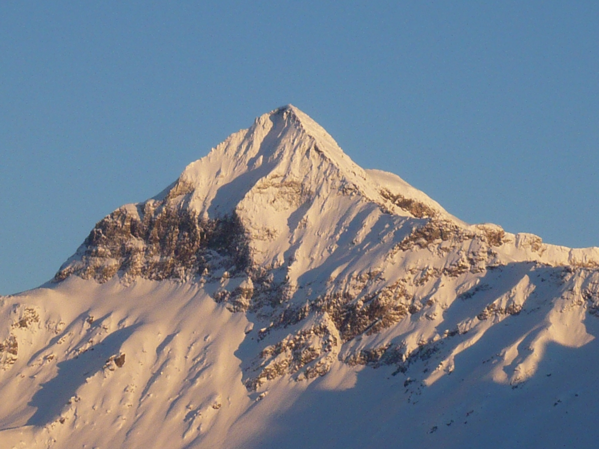 Pizzo Scalino from west.